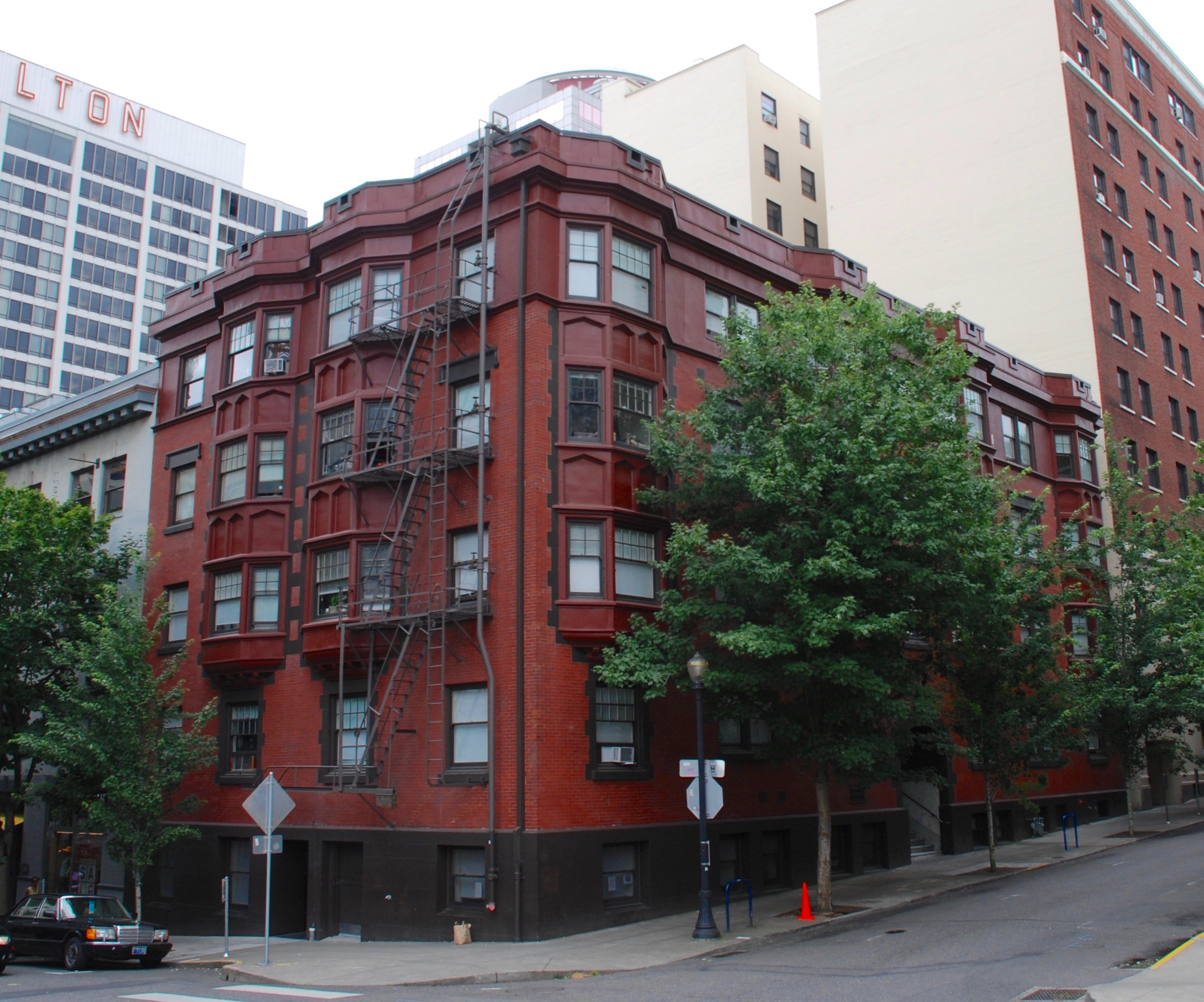 The Admiral Apartments (built 1909), at 910 Southwest Park Avenue (at Taylor Street) in Portland, Oregon. The building is listed on the U.S. National Register of Historic Places. This view is from the northwest.